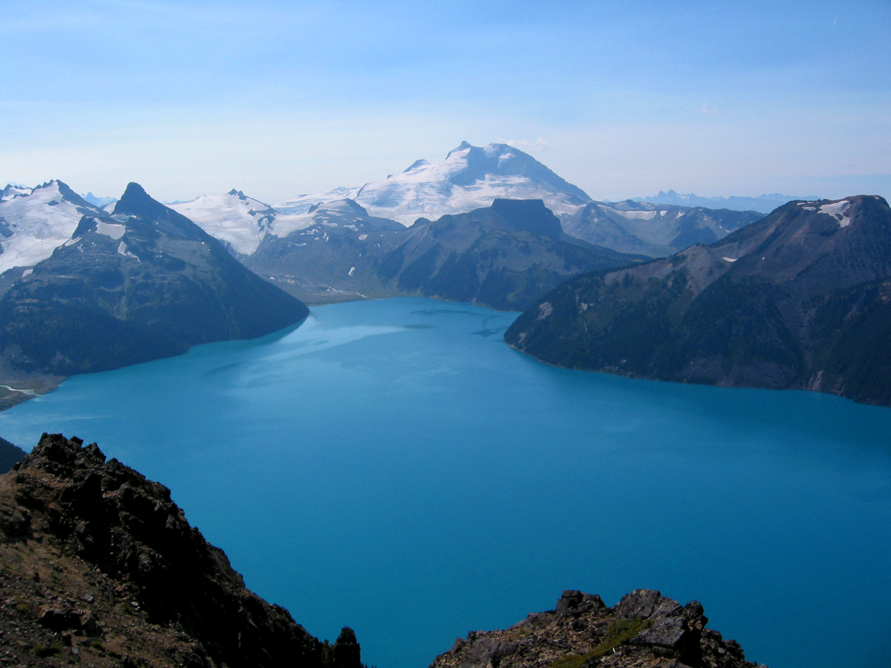 Garibaldi Lake and the north face of Mount Garibaldi, looking south from Panorama Ridge at 6900 ft (2100 m).